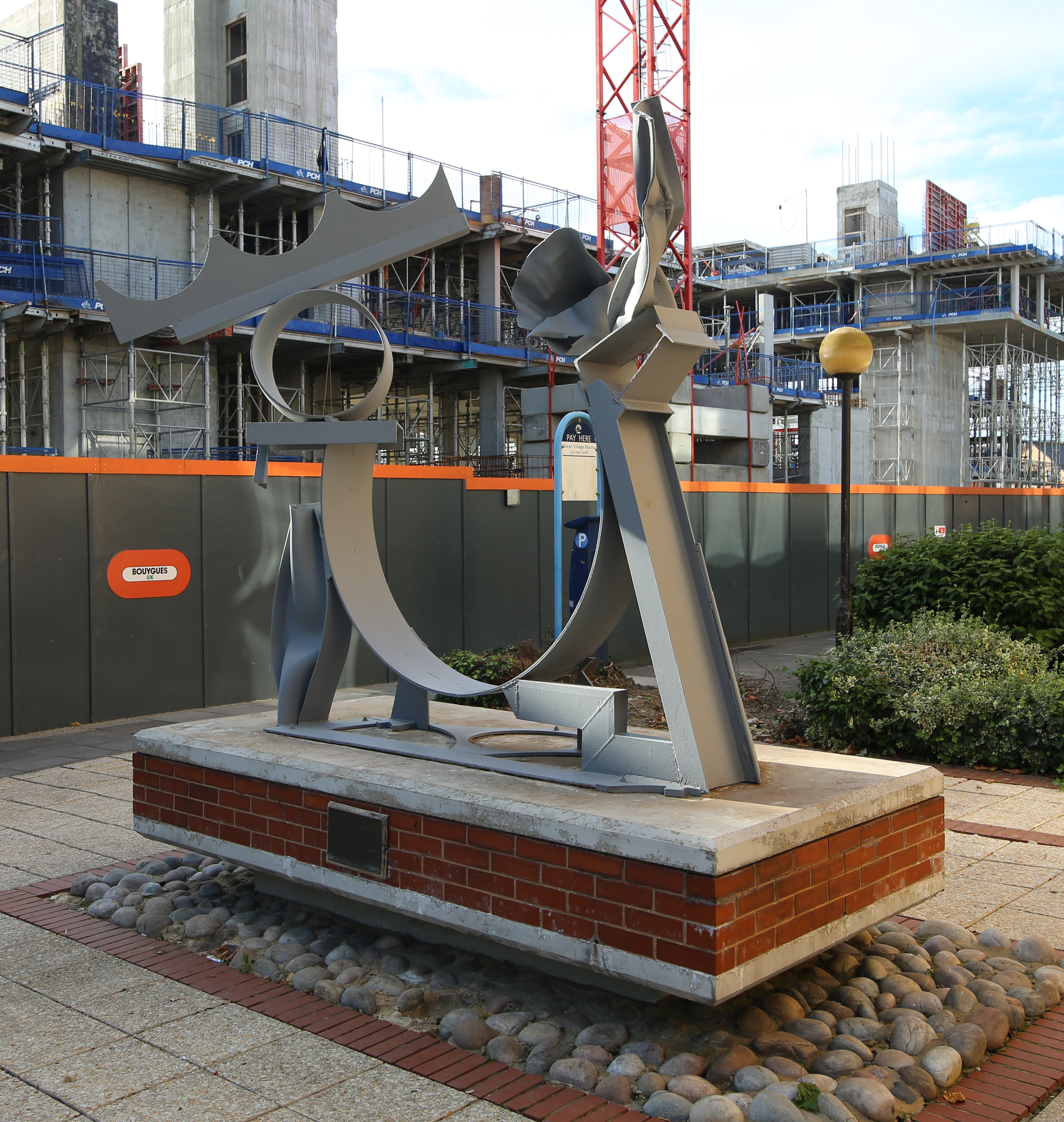 Photo of the Three rings sculpture by Jane Ackroyd in ocean village